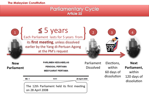 A time line showing the life time of a Malaysian Parliament